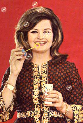 Pooran (singer))